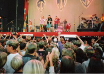 I hereby assert that I am the creator and/or sole owner of the exclusive copyright of [hela filnamnet/filnamnen så som de laddas upp på Commons]. The text of this web page is available for modification and reuse under the terms of the Creative Commons Attribute Share-Alike, version 3,0 and earlier. I acknowledge that I grant anyone the right to use the work in a commercial product, and to modify it according to their needs, as long as they abide by the terms of the license and any other applicable laws. I am aware that I always retain copyright of my work, and retain the right to be attributed in accordance with the license chosen. Modifications others make to the work will not be attributed to me. I am aware that the free license only concerns copyright, and I reserve the option to take action against anyone who uses this work in a libelous way, or in violation of personality rights, trademark restrictions, etc. I acknowledge that I cannot withdraw this agreement, and that the work may or may not be kept permanently on a Wikimedia project. Photographer: Wille Crafoord